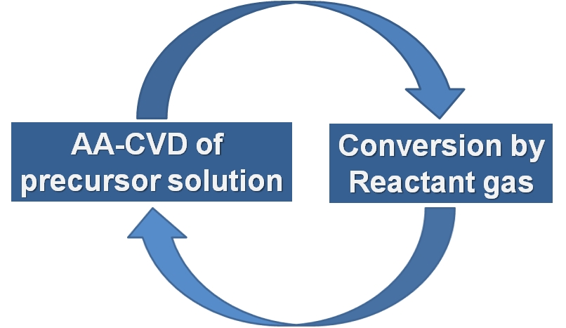 Schematic representation of the ILGAR process